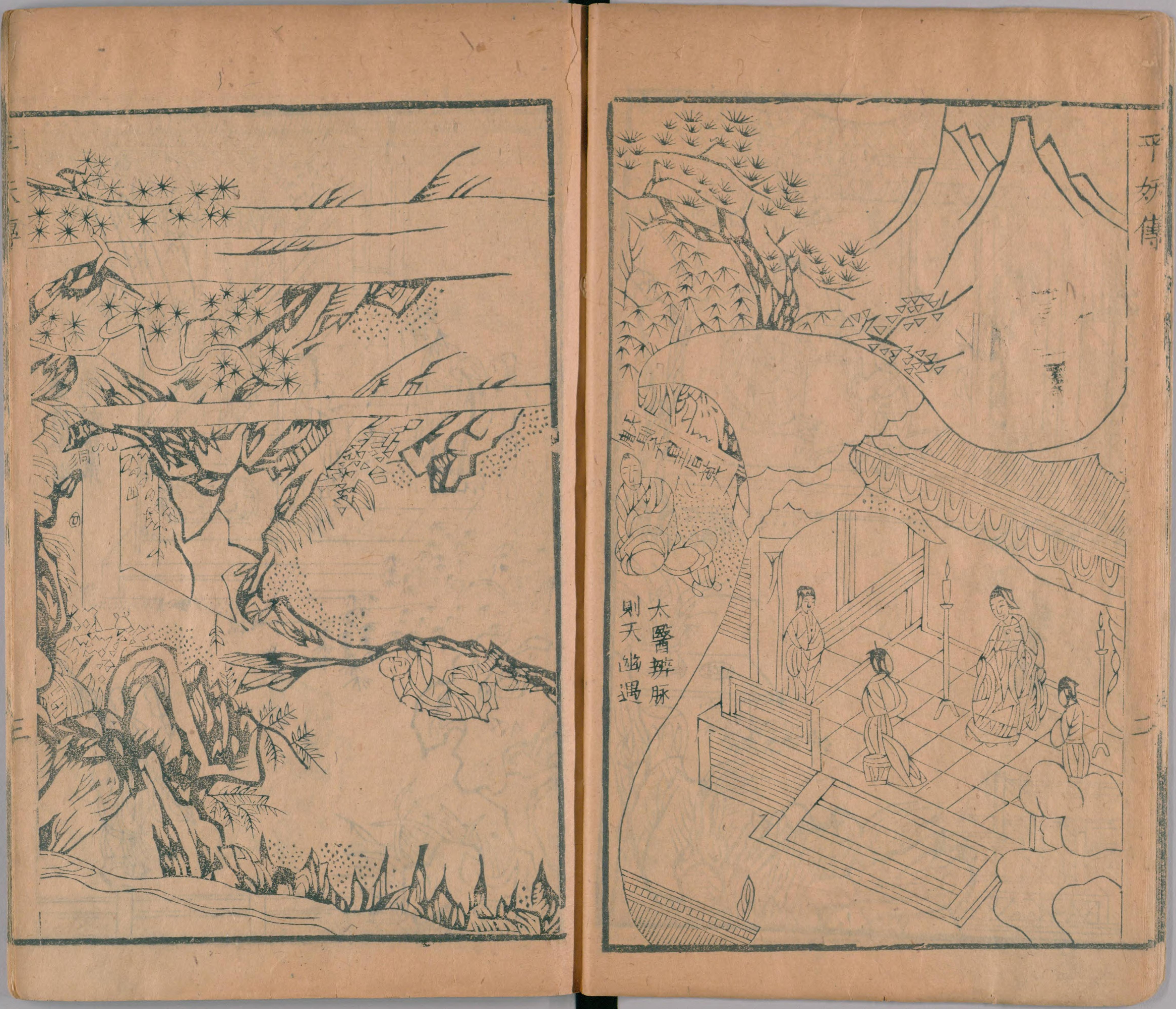 part 1 to part 29, by Luo Guanzhong (of the Yuan Dynasty, China), added by Feng Menglong (of the Ming Dynasty, China), printed in 1812 (17th year of the Jaqing Era of the Qing Dynasty, China), 6 books, 24.0 by 15.5cm. Heiyo den (Ping yao zhuan), part 29 to part 40, by Luo Guanzhong (of the Yuan Dynasty, China), added by Feng Menglong (of the Ming Dynasty, China), copied in the 7th year of the Tenpo Era (1836), 6 books, 23.1 by 14.6cm The Chinese novel Pingyao Zhuan. These books were previously owned by Kyokutei Bakin. Chinese printed books are complemented with manuscripts. Some of the novels written by Bakin are influenced by Chinese novels.